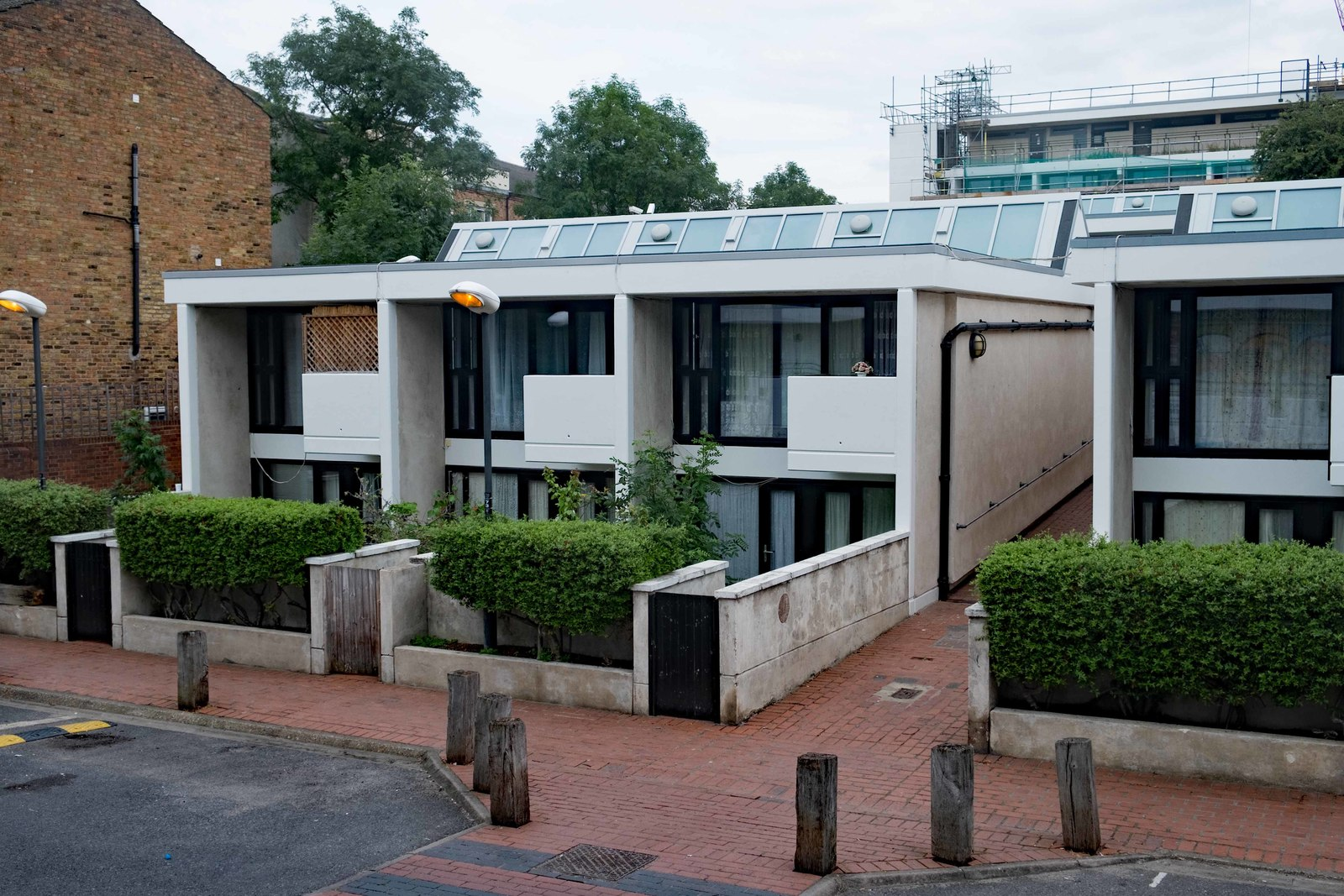 Housing units, Maiden Lane Estate